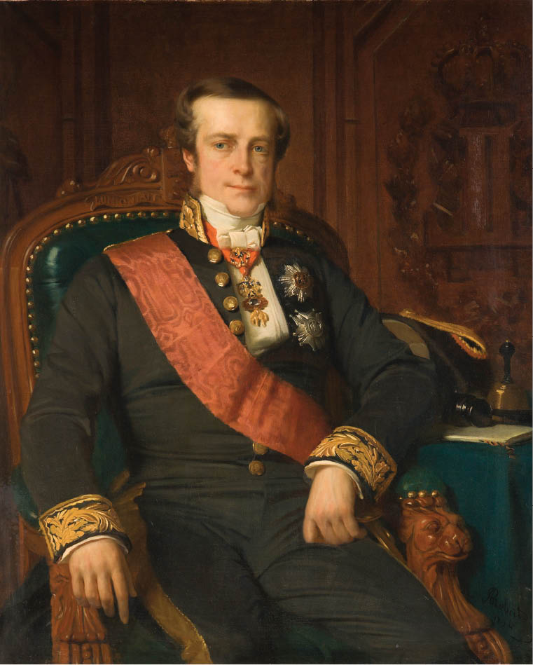 Portrait of Eugène Prince de Ligne (1804-1880) as president of the Belgian Senate